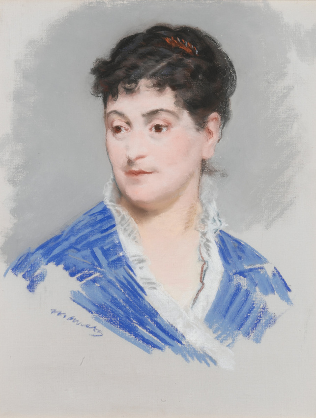 Portrait of Alexandrine-Gabrielle Meley (1839-1925), wife of Emile Zola